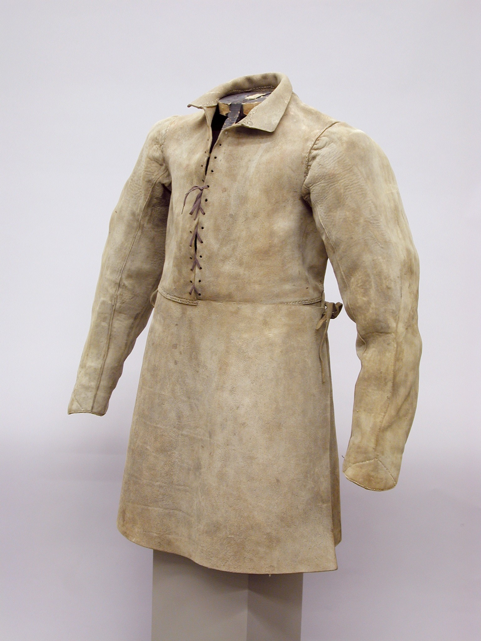 European; Buff coat; Costumes-Buff Coat